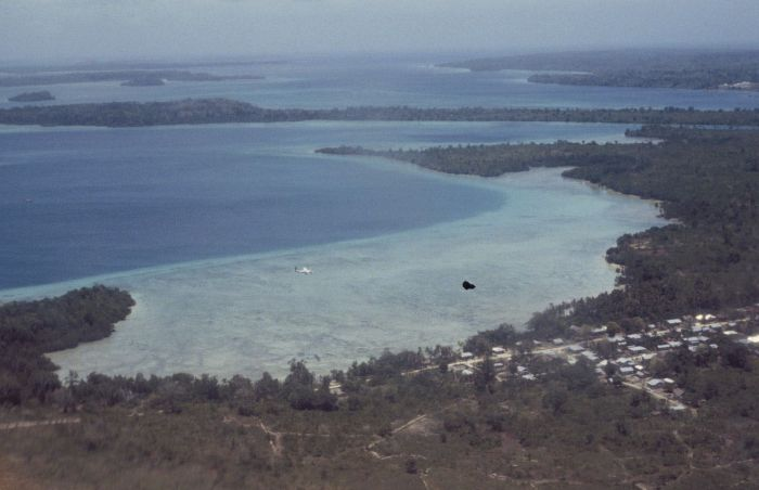 Air photo of the coast at Tual